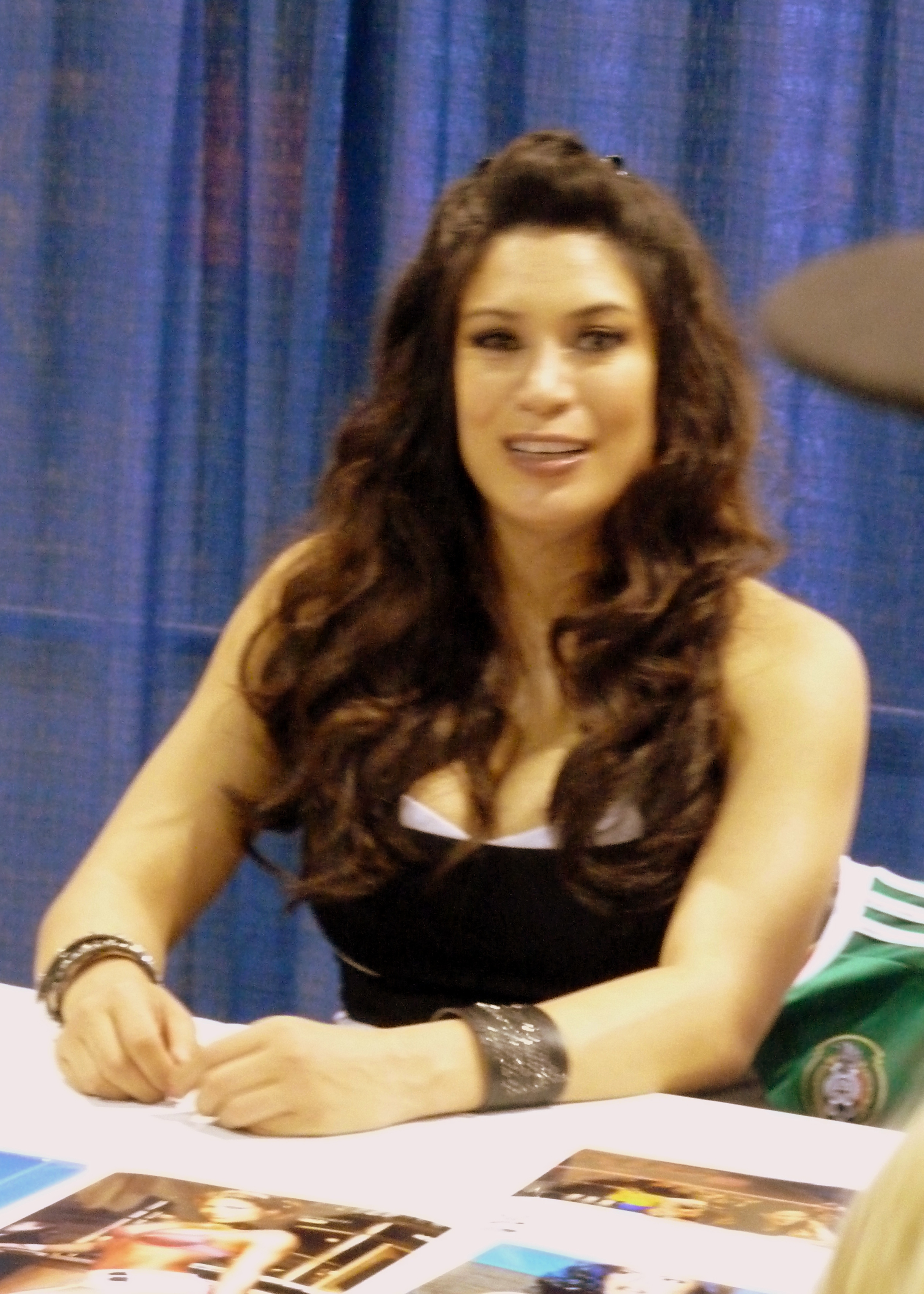 Melina Perez 2 Guests at Wizard World Chicago 2012.